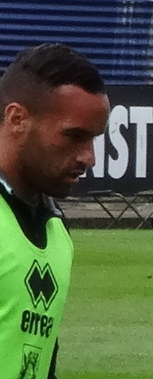 Kaid Mohamed warming up for Northampton Town against York City at Bootham Crescent, York on 16 August 2014.